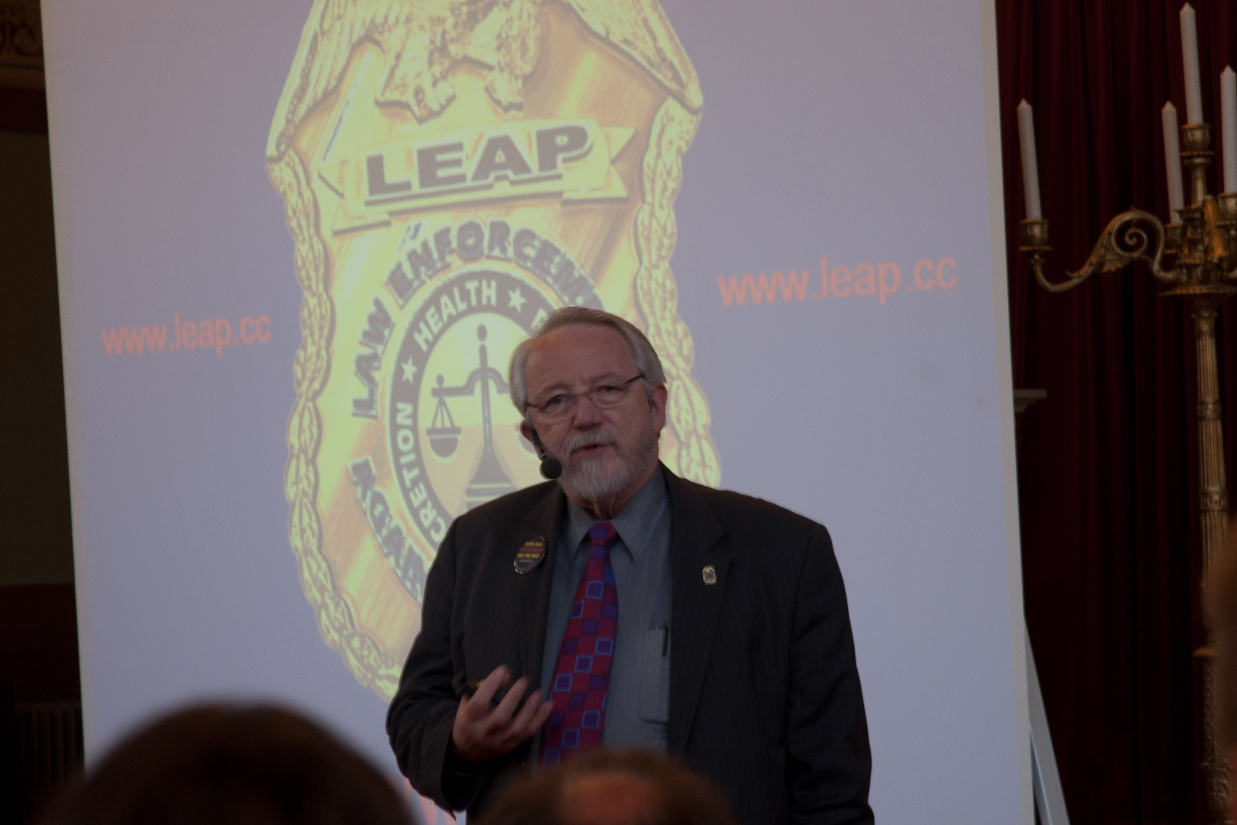 Jack A. Cole speaking in 2005